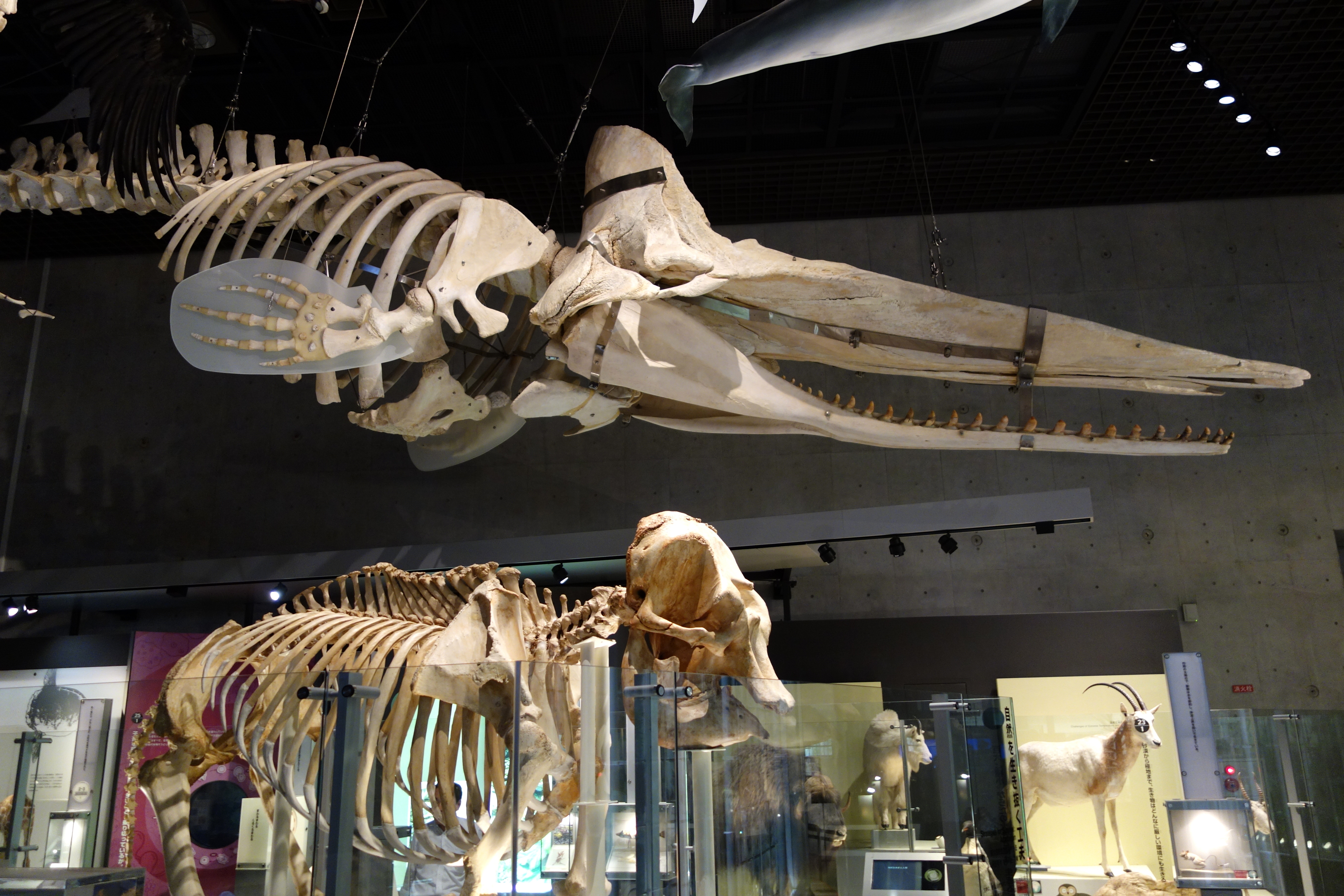 Exhibit in the National Museum of Nature and Science, Tokyo, Japan.